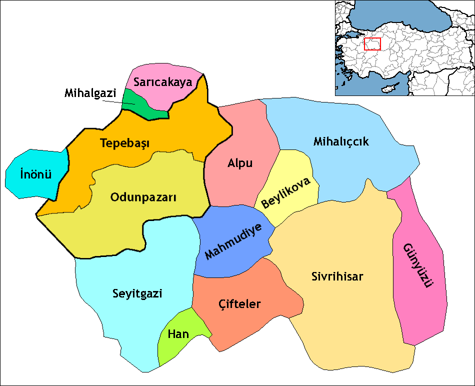 Map of the districts of Eskişehir province in Turkey. Created by Rarelibra 19:54, 1 December 2006 (UTC) for public domain use, using MapInfo Professional v8.5 and various mapping resources. Edited by One Homo Sapiens Corrected text where İ,Ş,ı,ğ,or ş occurs in name. Source: [statoids-com]. Increased font size and enhanced color differences among adjacent districts.